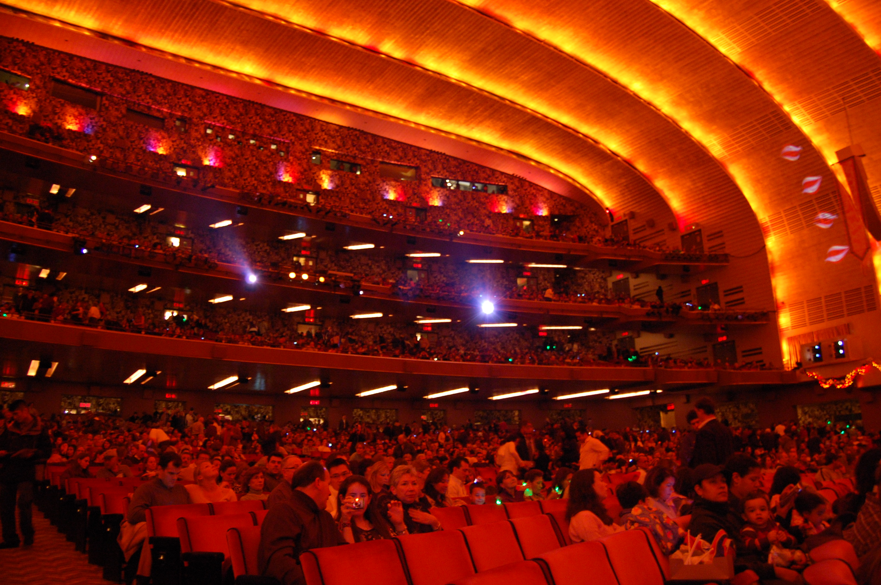 Radio City Christmas Spectacular